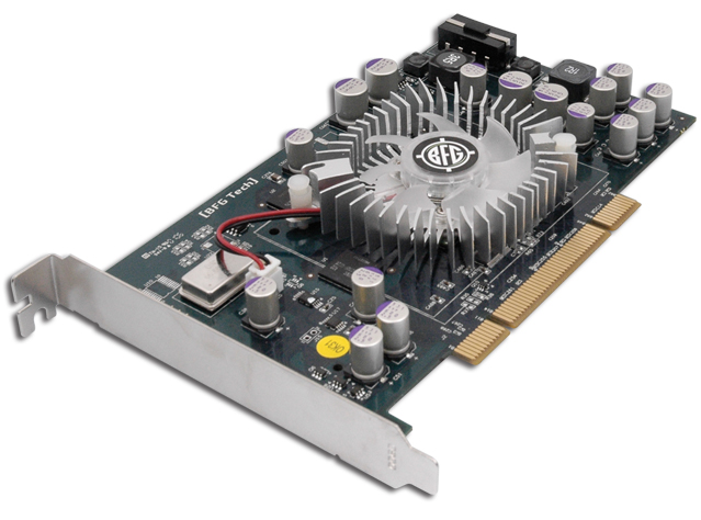 A picture of the BFG PhysX card